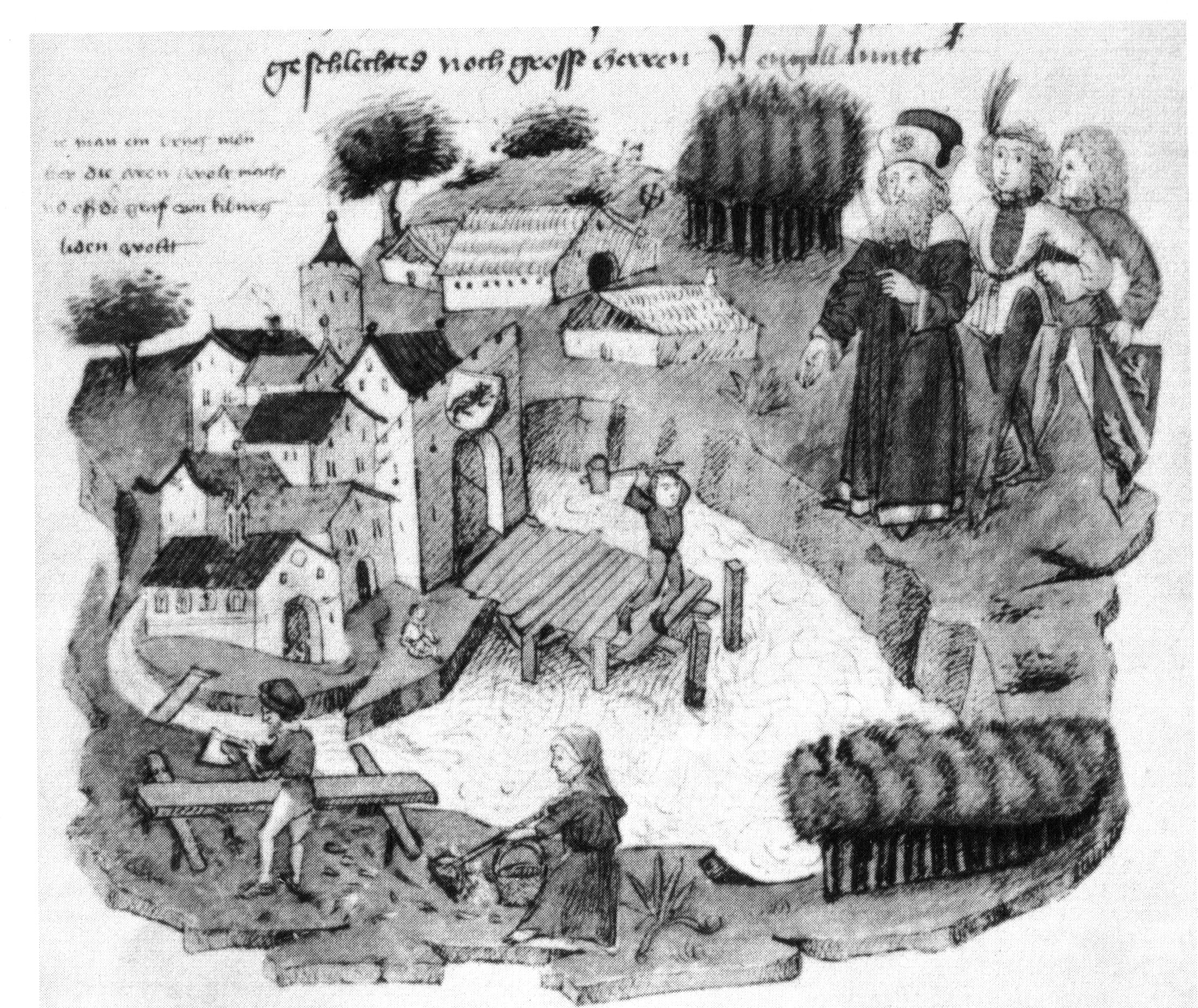 Manuscript illustration of the construction of the first Untertorbrücke in the city of Berne, Switzerland. The illustration shows count Hartmann d. J. von Kyburg around 1254 interdicting the construction of the bridge as a result of his conflict with the city